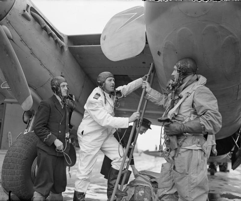 British Overseas Airways Corporation and Qantas, 1940-1945. A passenger (right), who has been carried in the bomb-bay of a 'civilianised' De Havilland Mosquito FB Mark VI of BOAC on the fast freight service from Stockholm, Sweden, congratulates Captain Wilkins and his navigator on their safe arrival at at Leuchars, Fife.